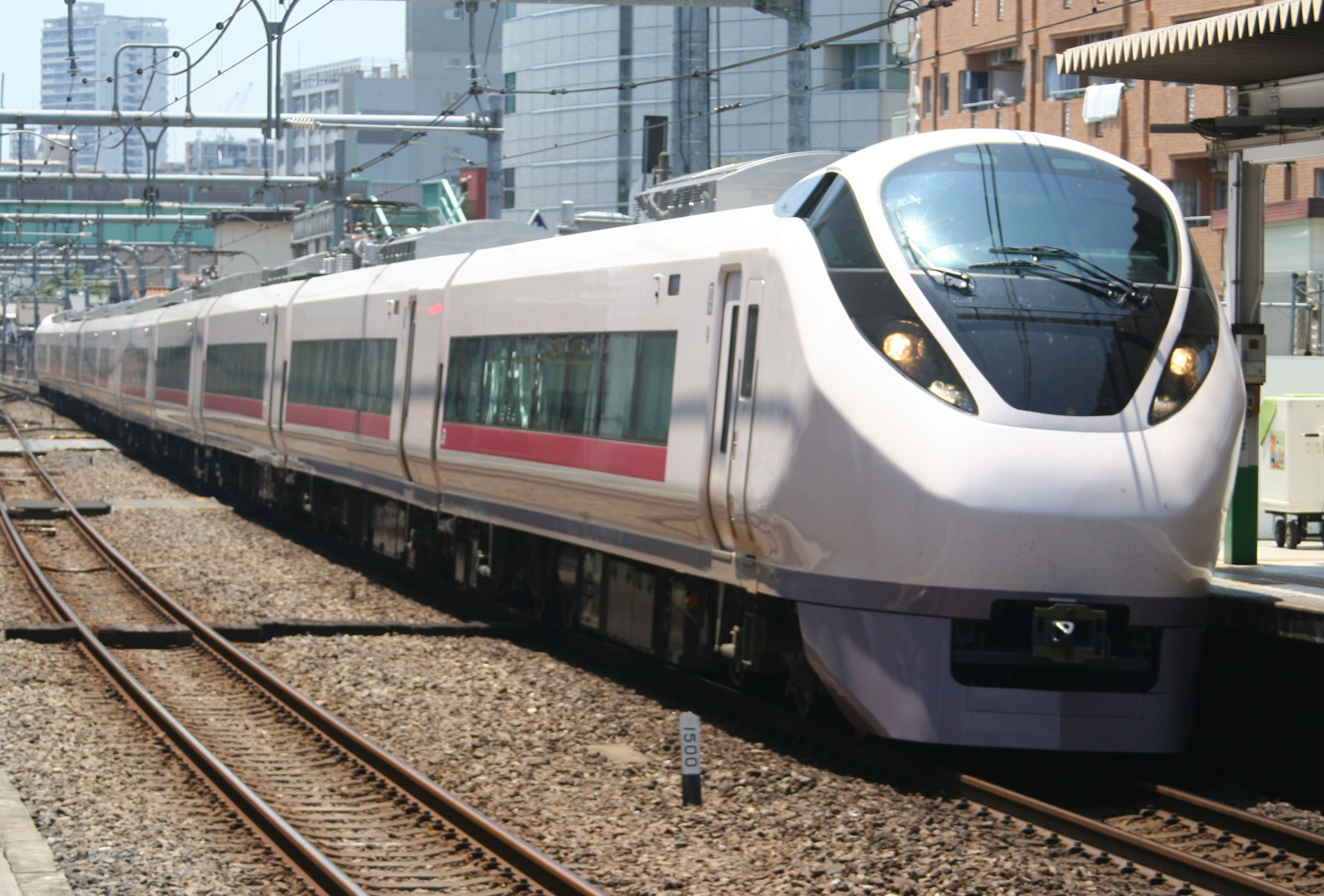 JR East E657 series on a test run at Kita-Senju Station on the Joban Line